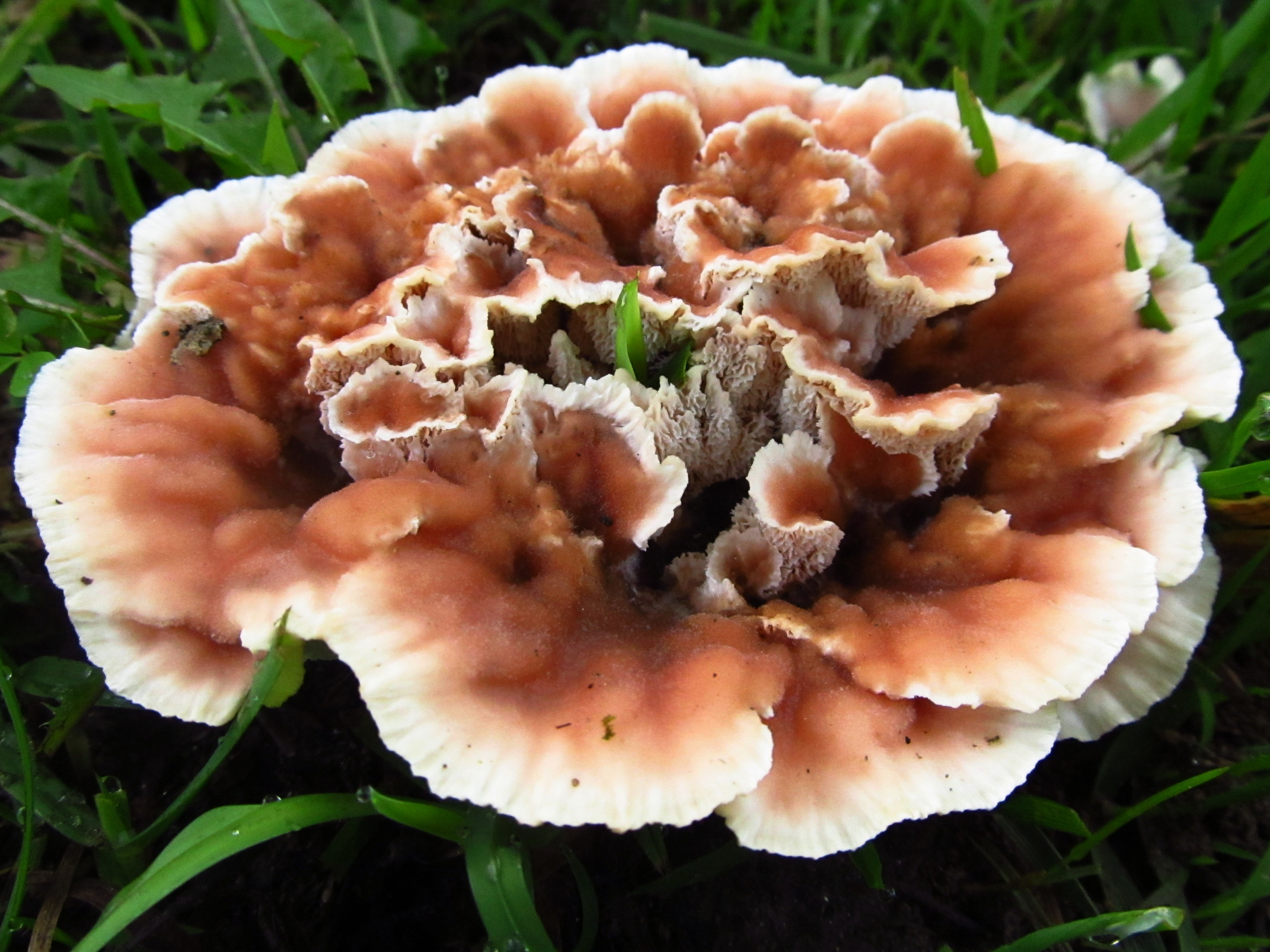 Fruit body of the fungus Abortiporus biennis (Bull.) Singer. Specimen photographed in Montgomery Co., Maryland, USA.